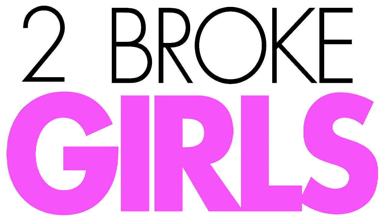 Original logo used for the promotion of the television series 2 Broke Girls